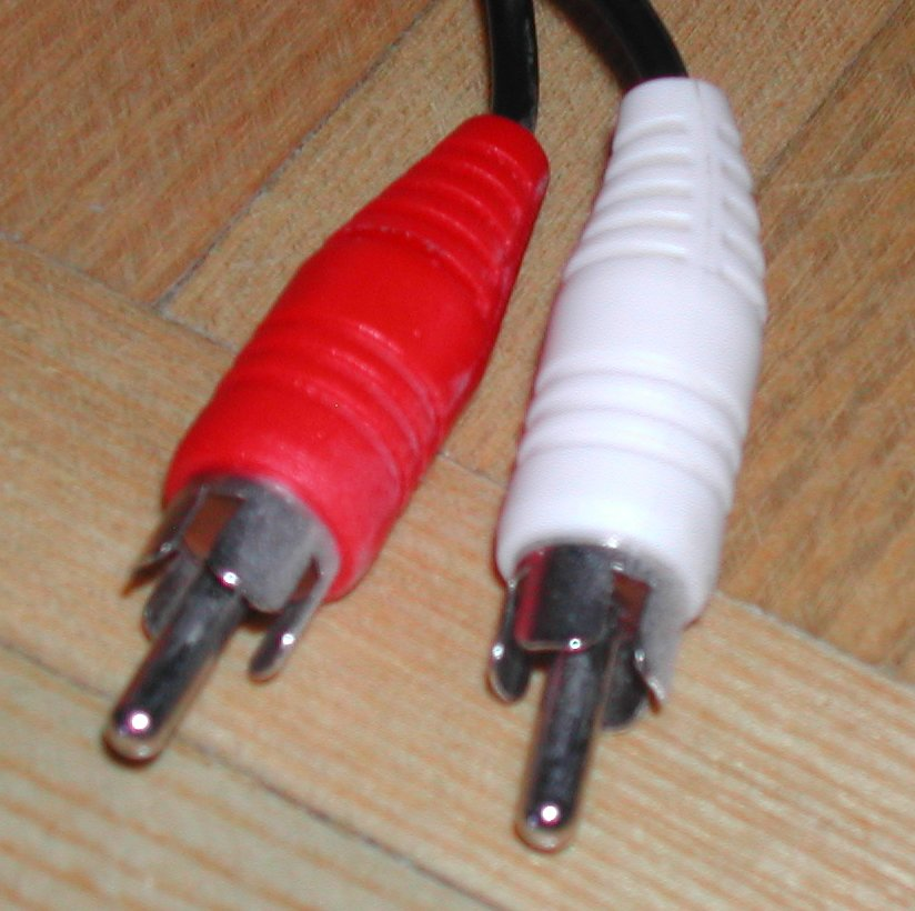 Two RCA-jacks, probably from some DVD-player. Photo taken 19.7.2005.